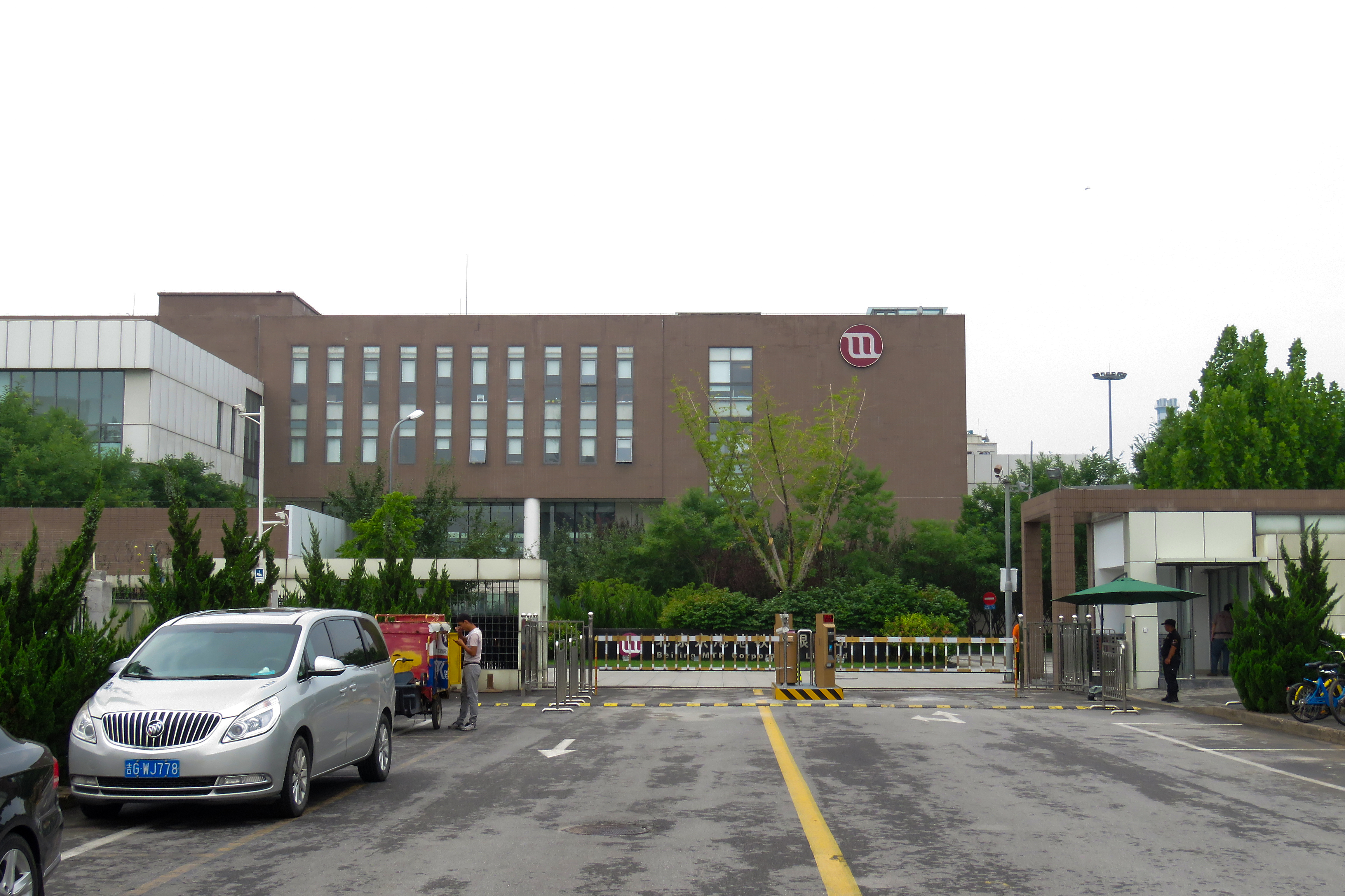 Just south of Chengnanjiayuanbei (城南嘉园北) terminus.